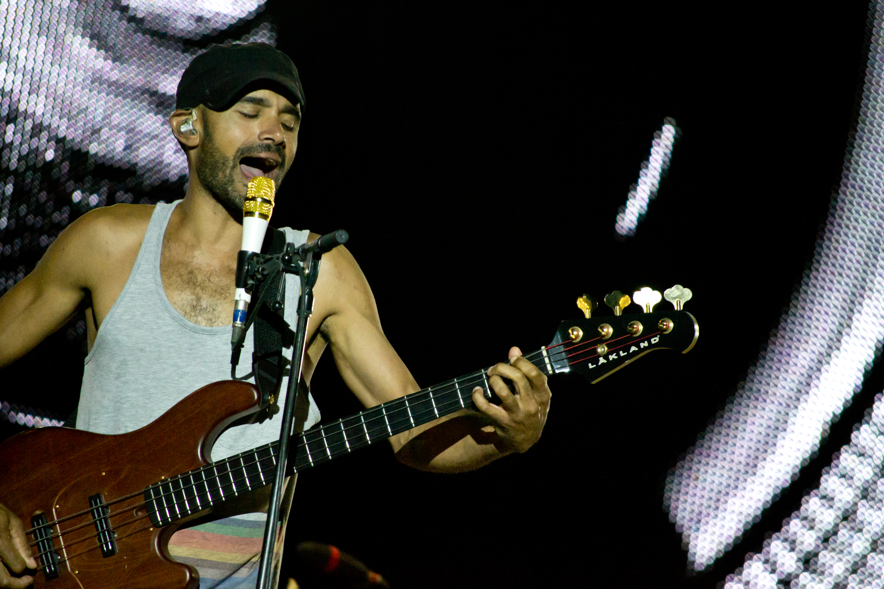 Incubus in Rock in Rio Madrid 2012.